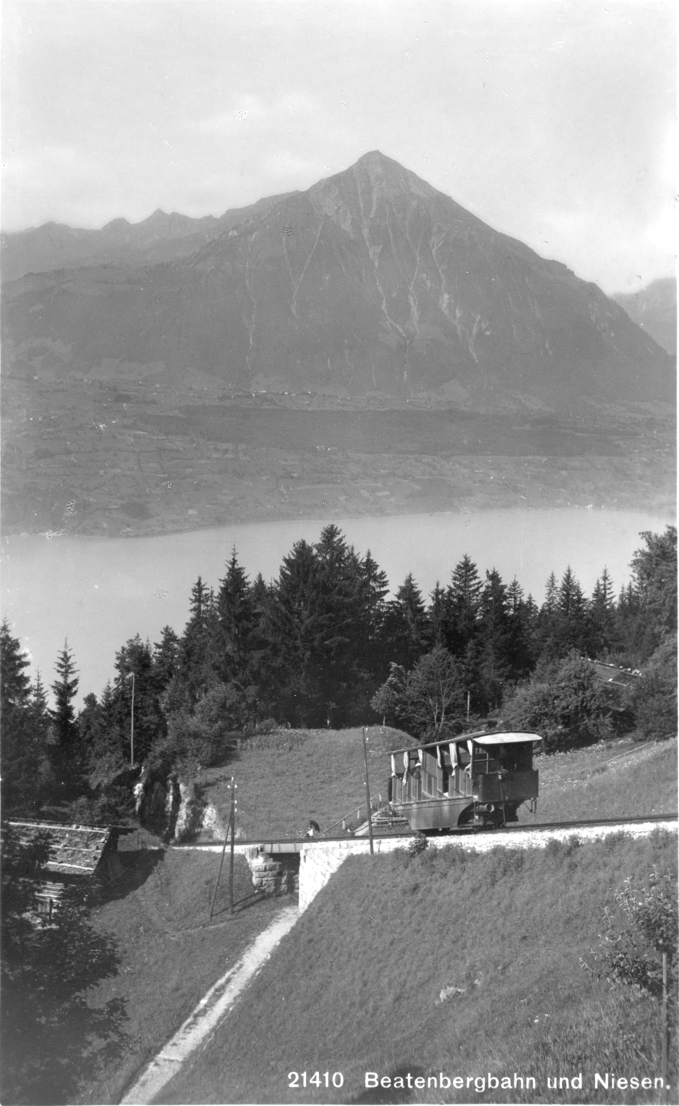 Beatenberg cable car with Niesen in the background. Postcard stamped August 11th 1933.